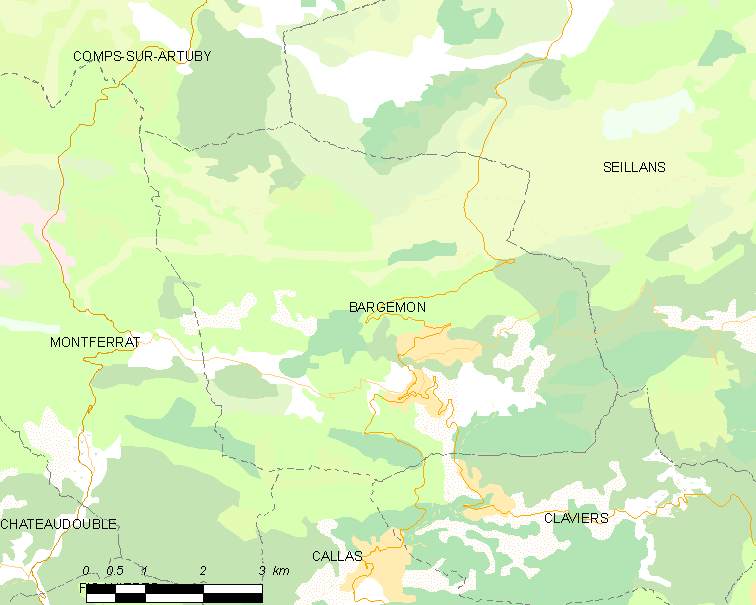 Map of French municipality Bargemon